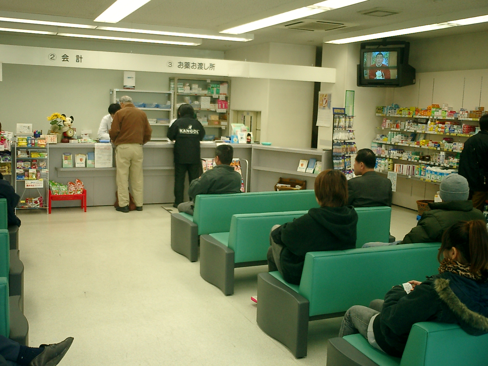 Japanese Pharmacy